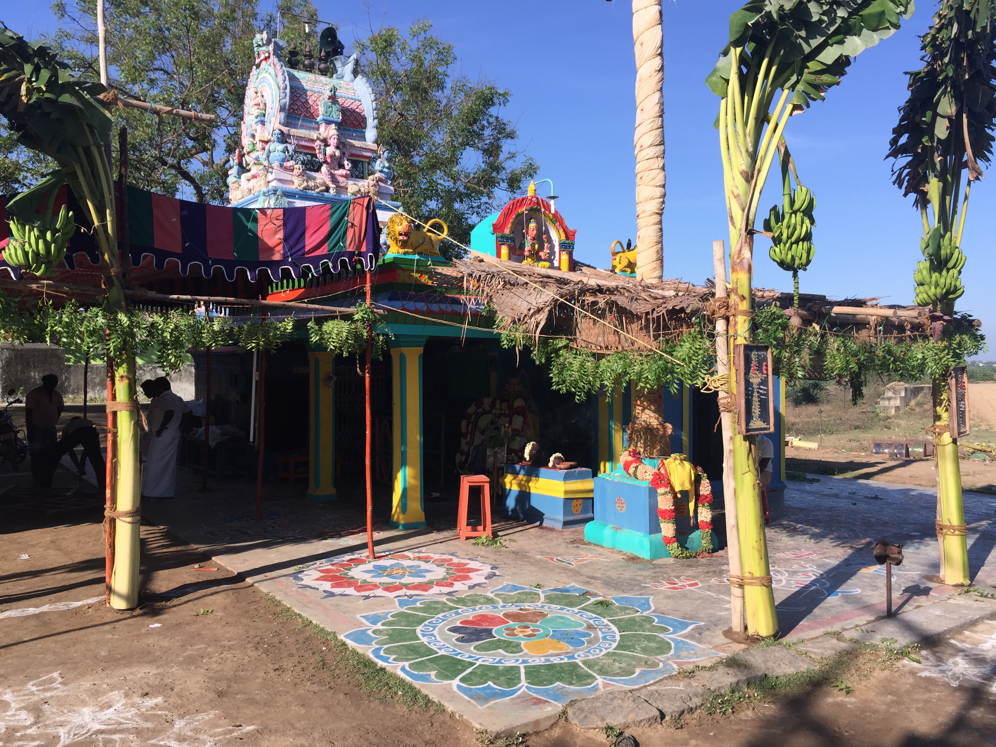 Sri Ellamman temple is located at Nathanallur, Kanchipuram District.